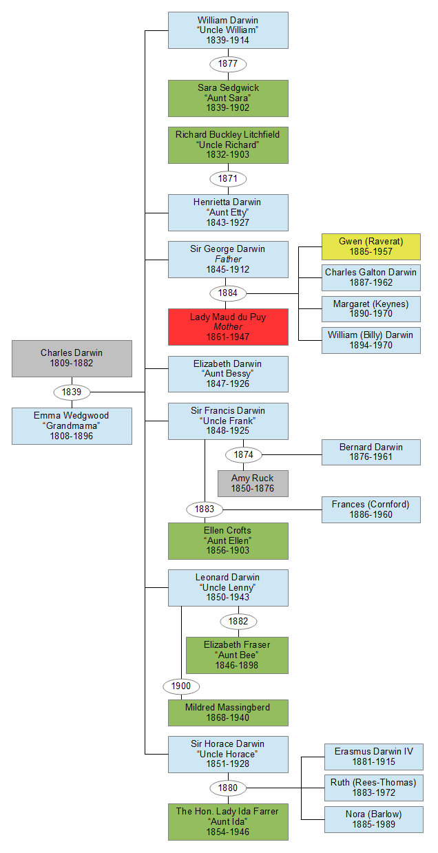 Father's family tree from Period Piece (book)